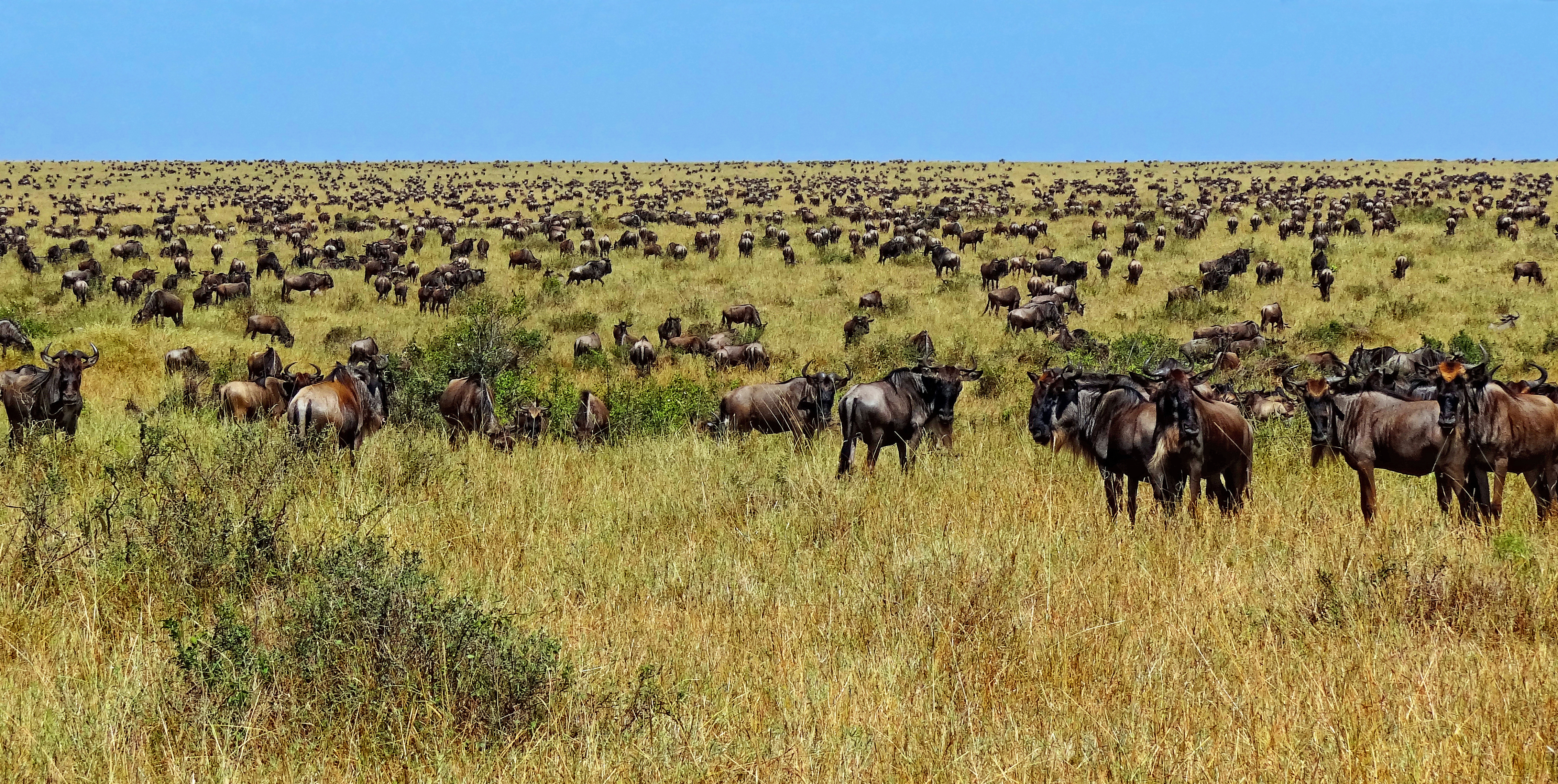 Numerous wildebeest photographed after having crossed the river Mara from Serengeti to the Mara.